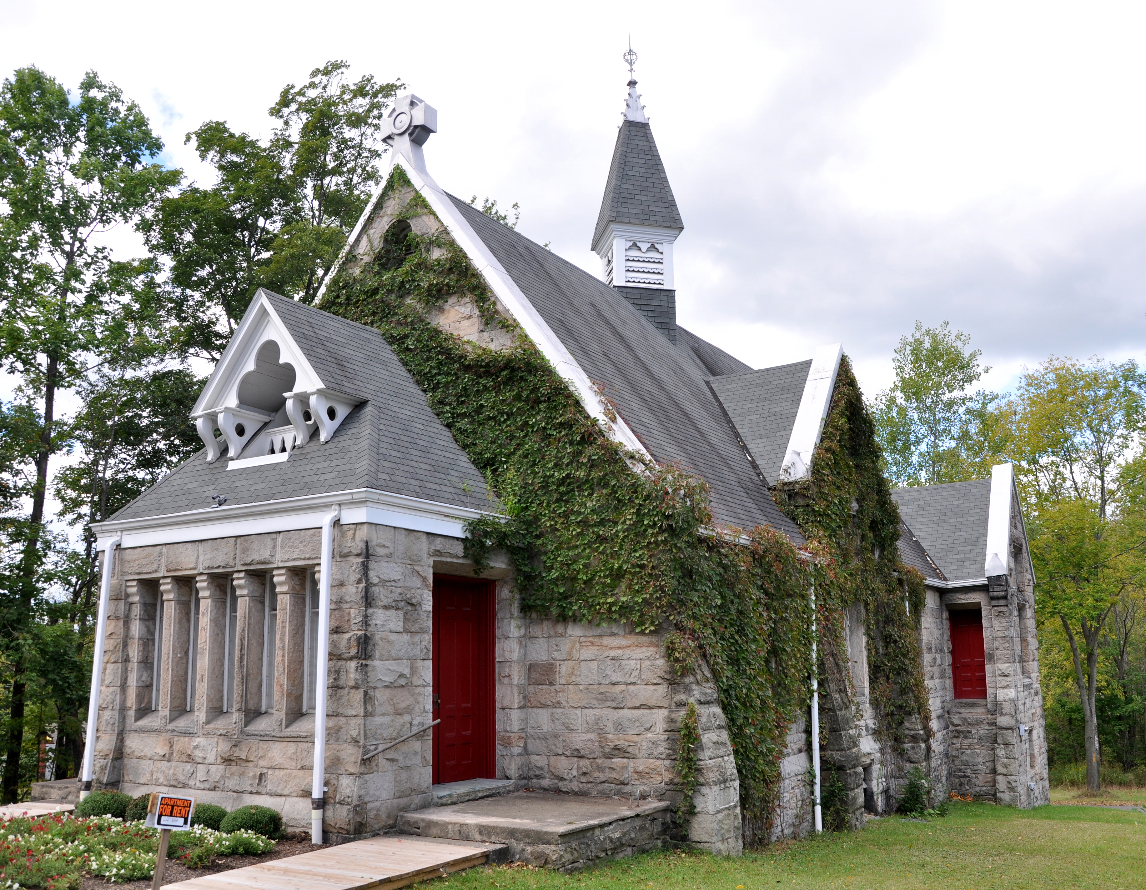 Church building (former Episcopal Church) in the village of Antrim in the U.S. state of Pennsylvania